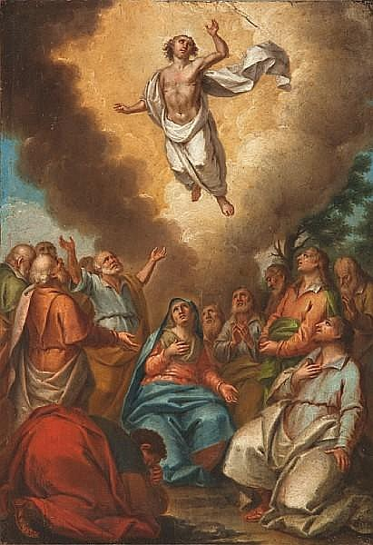 The Assumption